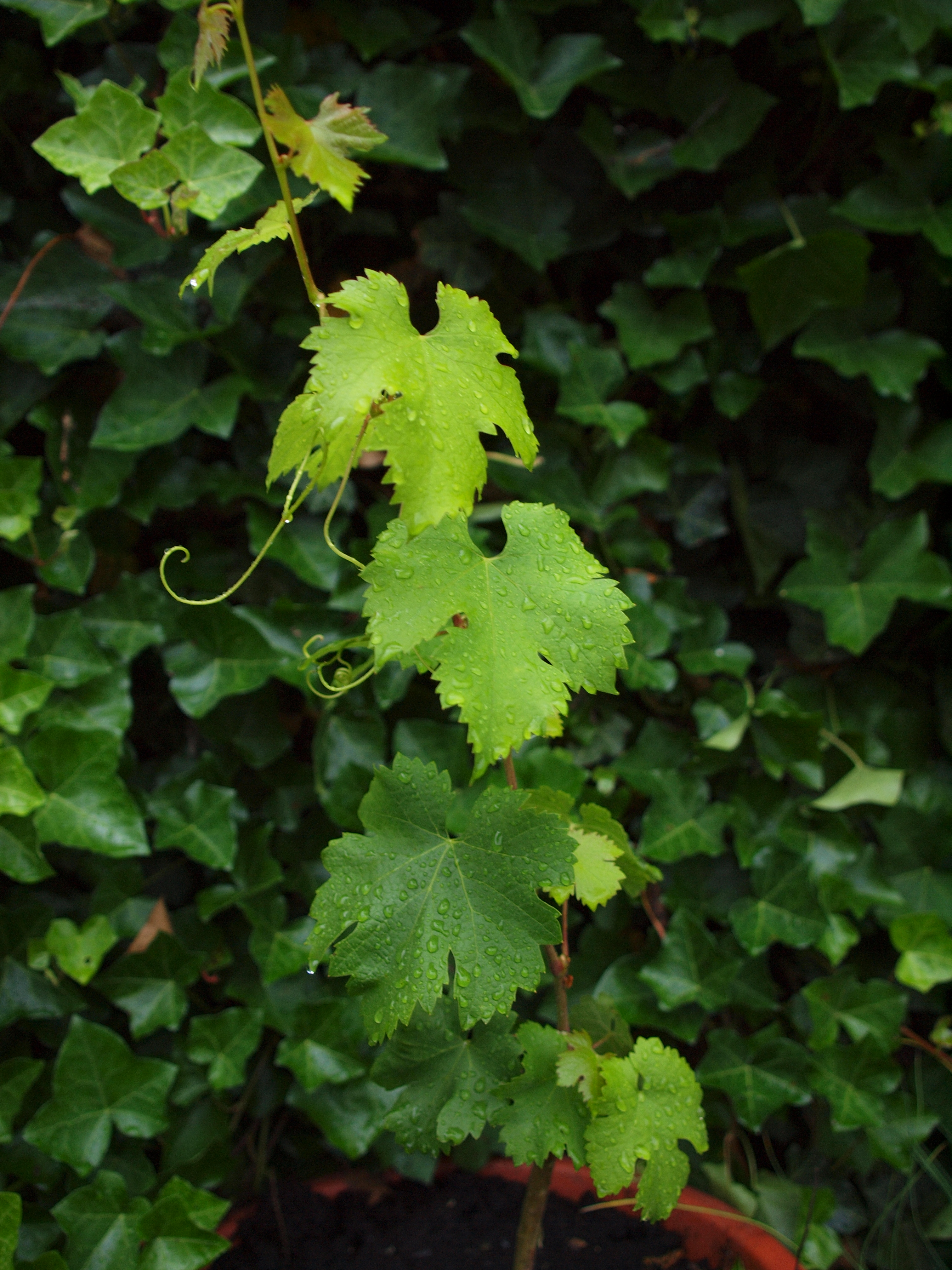 Vranac wine variety serbia montenegro macedonia